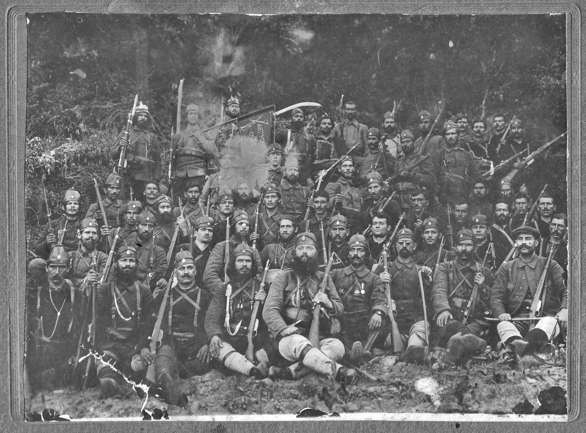 Aleko Vasilev cheta IMRO